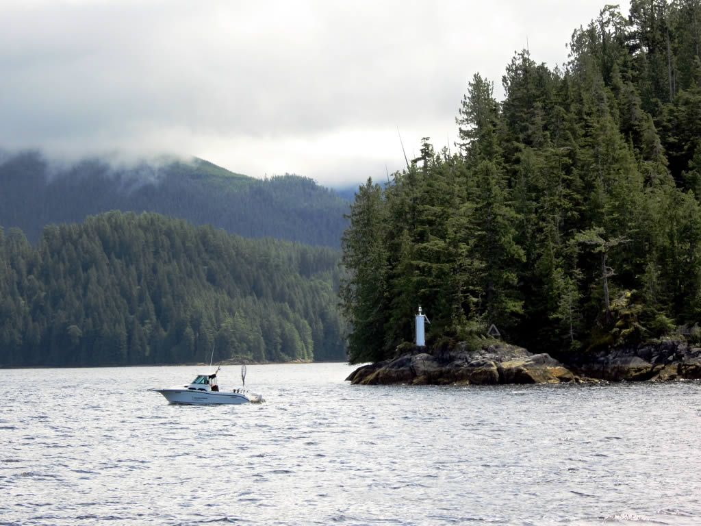 Bligh Island on Muchalat Inlet, British Columbia, Canada, is named for Captain William Bligh.